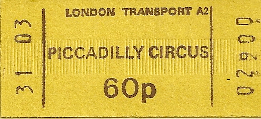 London Underground 60p ticket, 1981